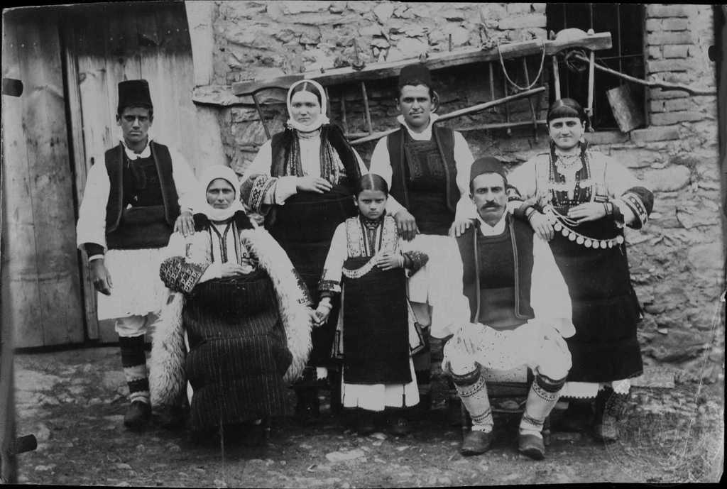 Boukovo_Pesants